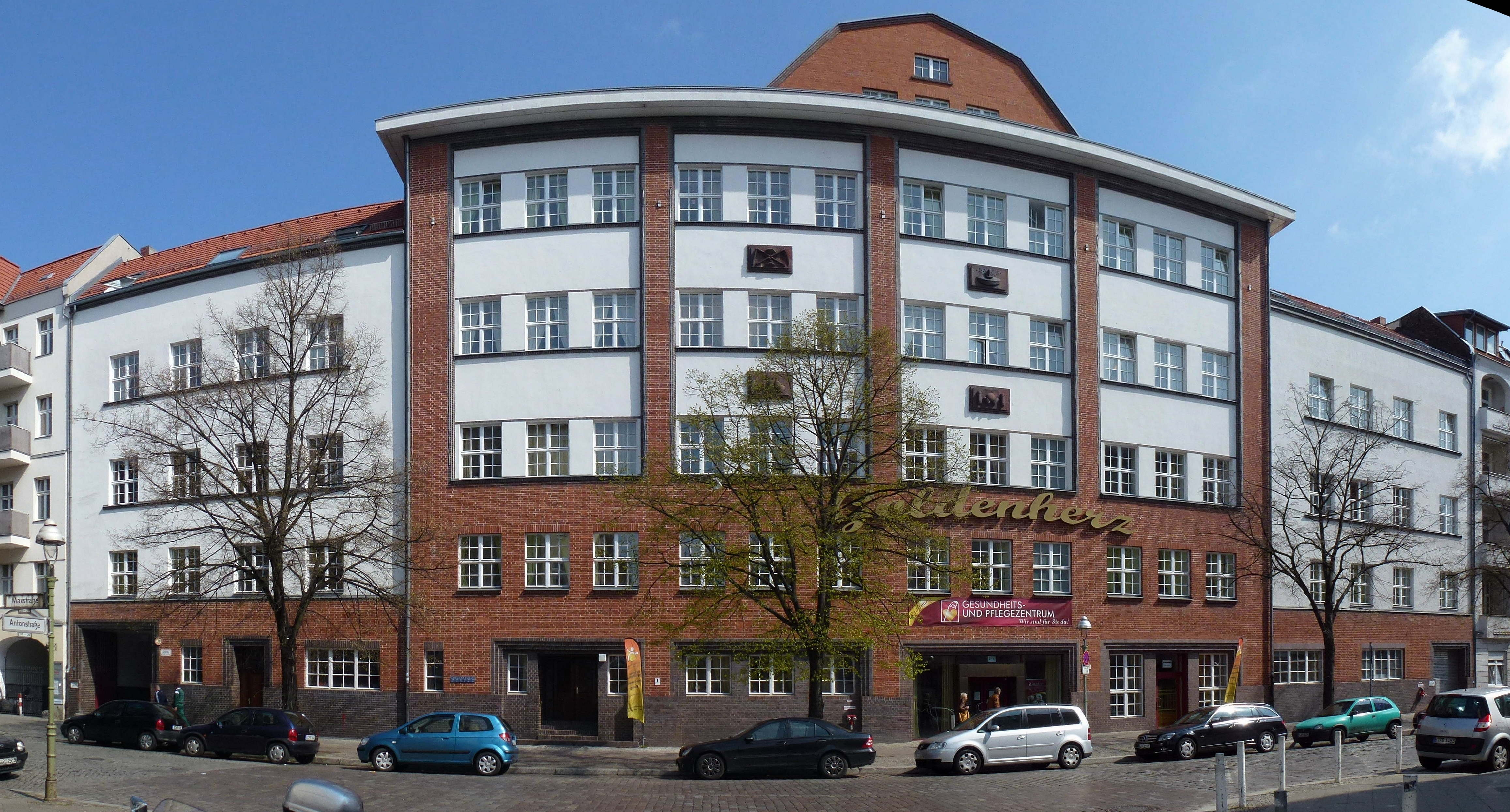 Berlin-Wedding Maxstraße ehemalige Wittler-Brotfabrik